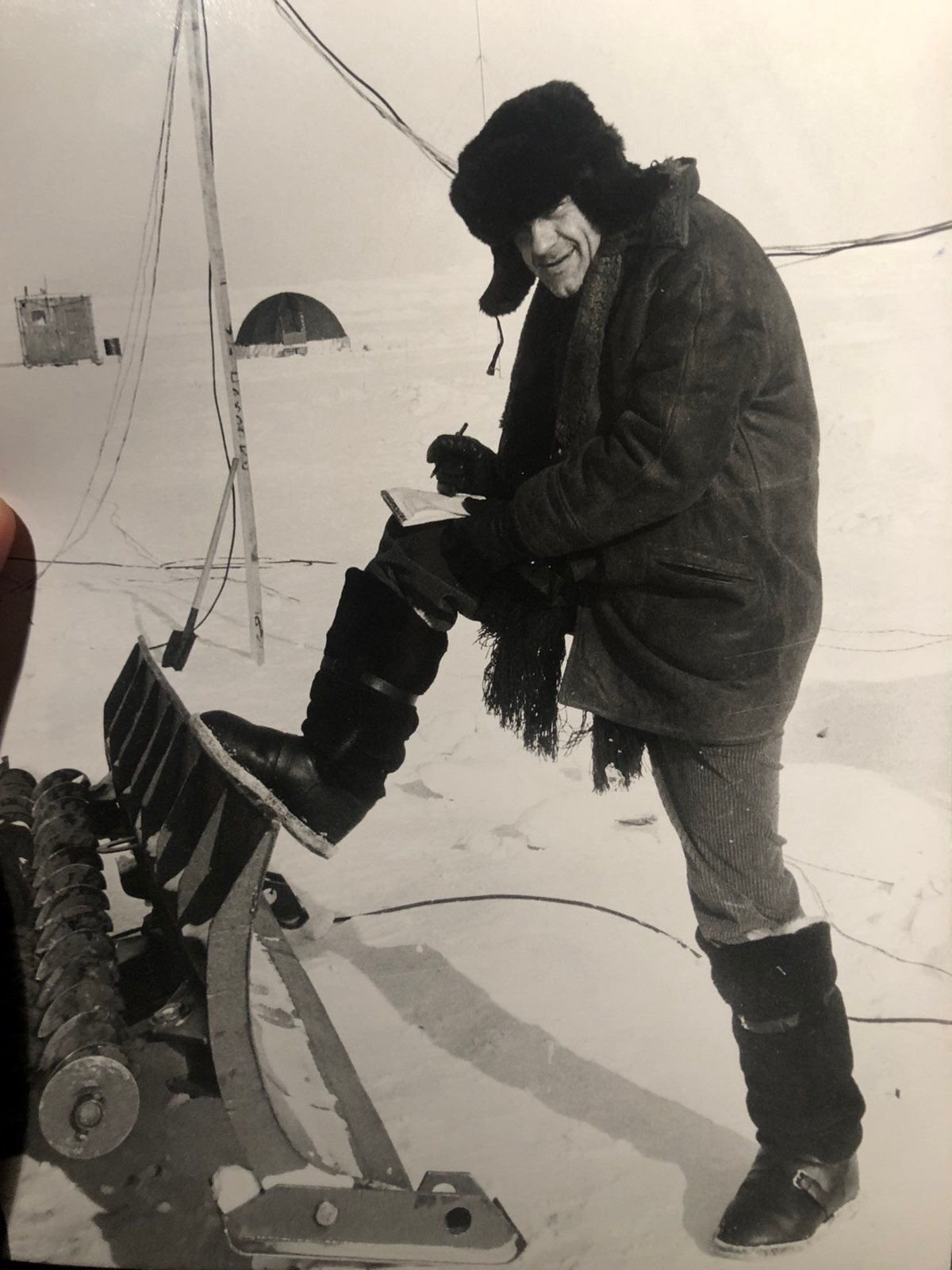 Mirko Bojic, Serbian journalist and reporter, on the SP-23 iceberg in the North Atlantic.